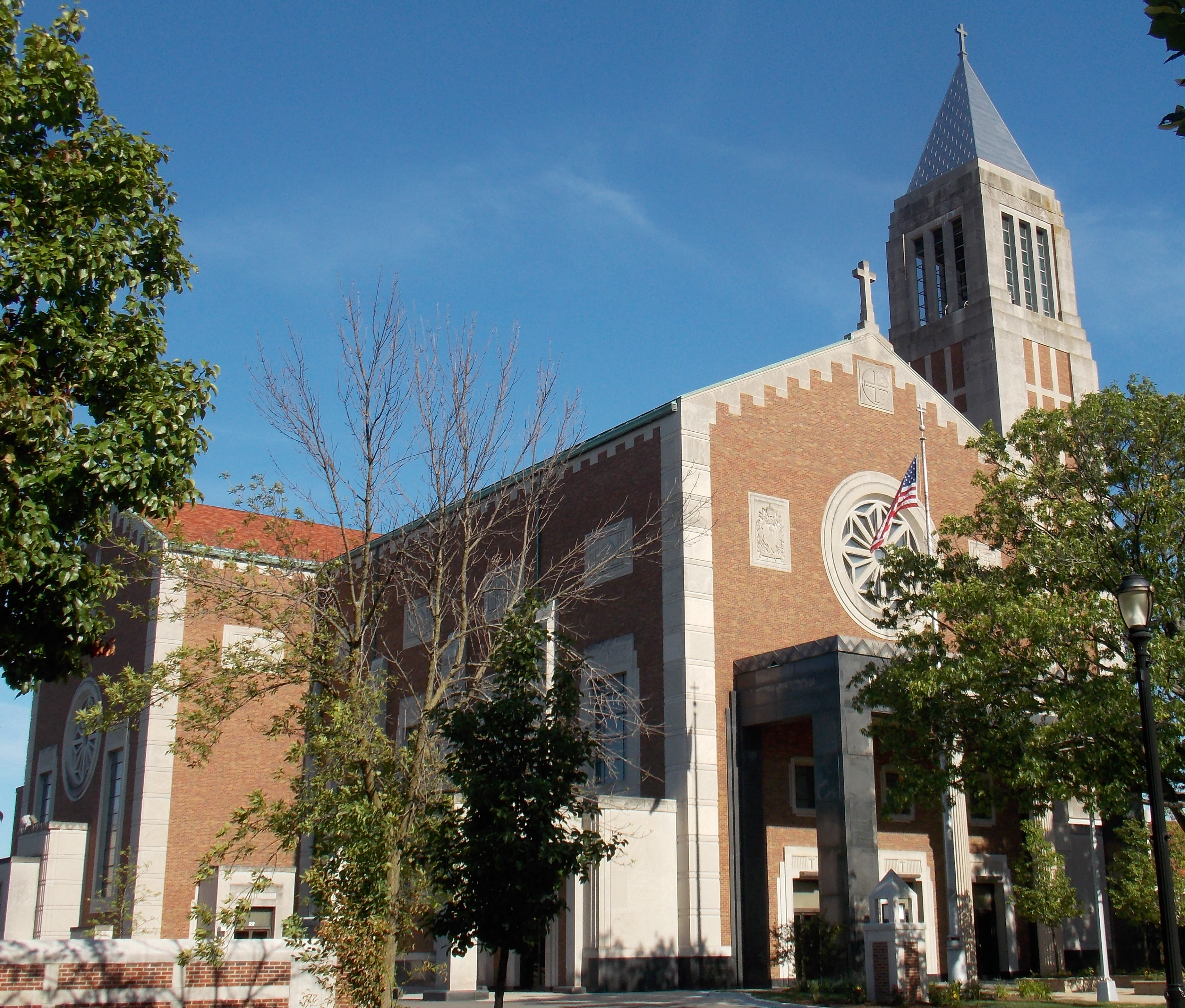 The Cathedral of St. Raymond Nonnatus is the seat of the Catholic Diocese of Joliet in Illinois.